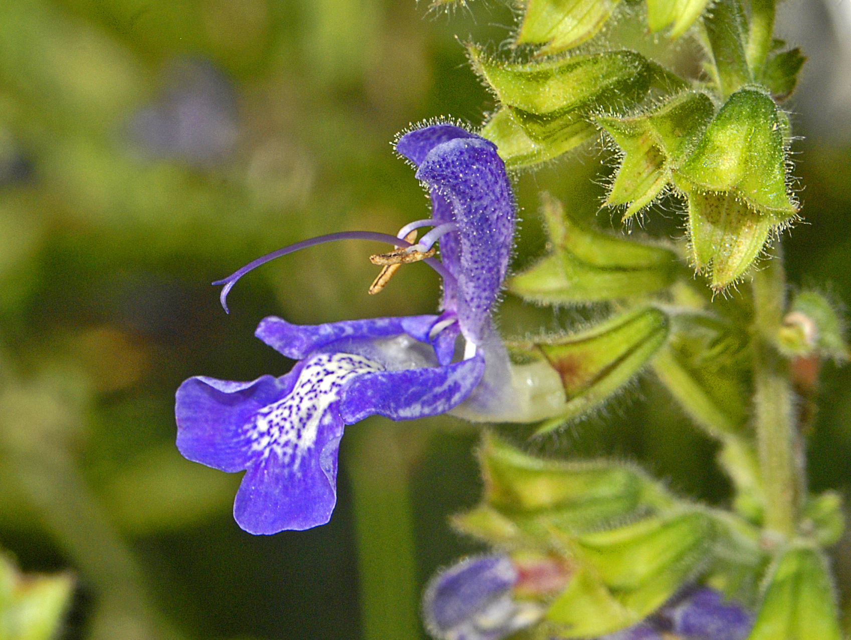 Flower of Salvia transsylvanica at the Orto Botanico di Brera